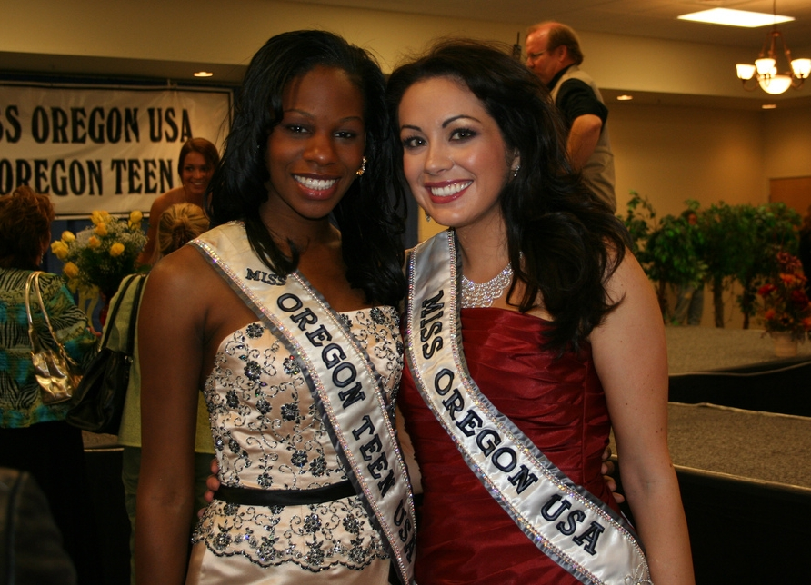 Kelci Flowers, Miss Oregon Teen USA 2006, and Allison Machado, Miss Oregon USA 2006, taken at the Miss Oregon USA 2007 when both passed on their titles.